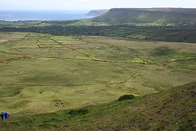 View from Tievebulliagh The small fields evident in this view are typical of Antrim. Lisestock farming predominates over crops, so there has not been any need to remove hedgerows and create larger fields. The long flat-topped ridge in the distance is Lurigethan, and the headland beyond is Garron Point. Cushendall is near the left edge of the view.